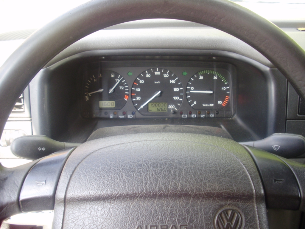 Instrument cluster Volkswagen Transporter T4 2.5 TDI prod. year 09.1998